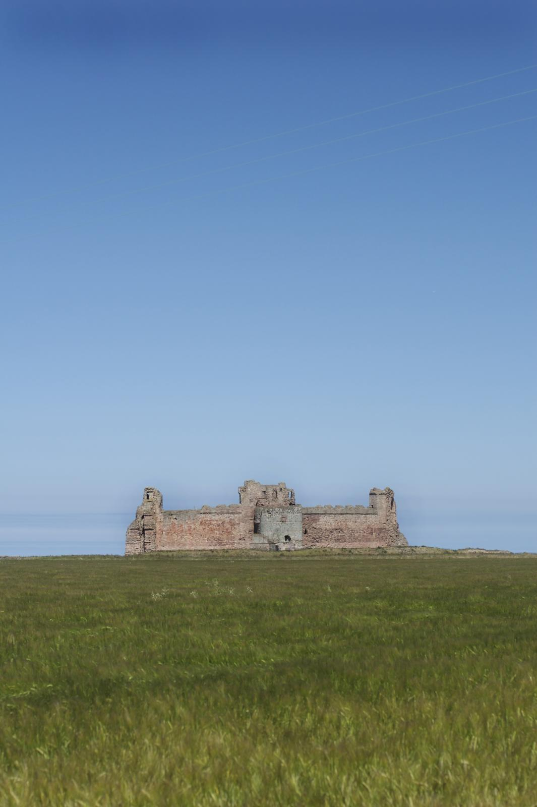 Tantallon Castle